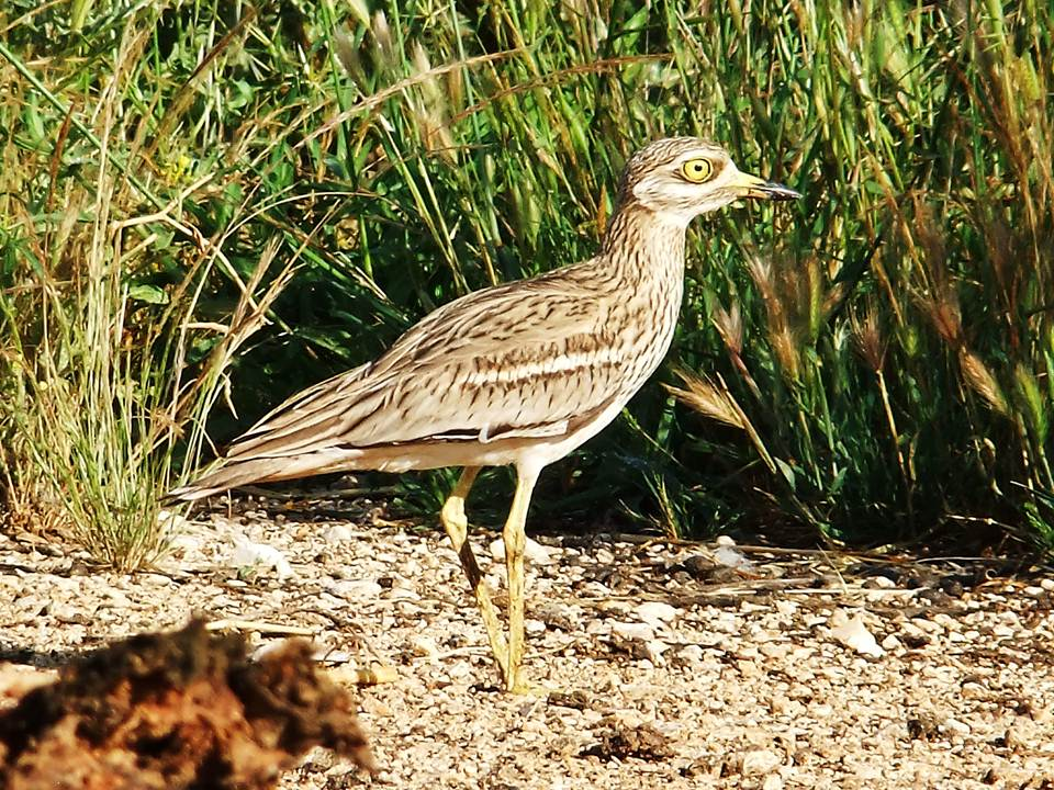 from EbnAmer Valley Jenin